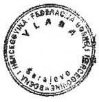 Government seal of the Federation of Bosnia and Herzegovina